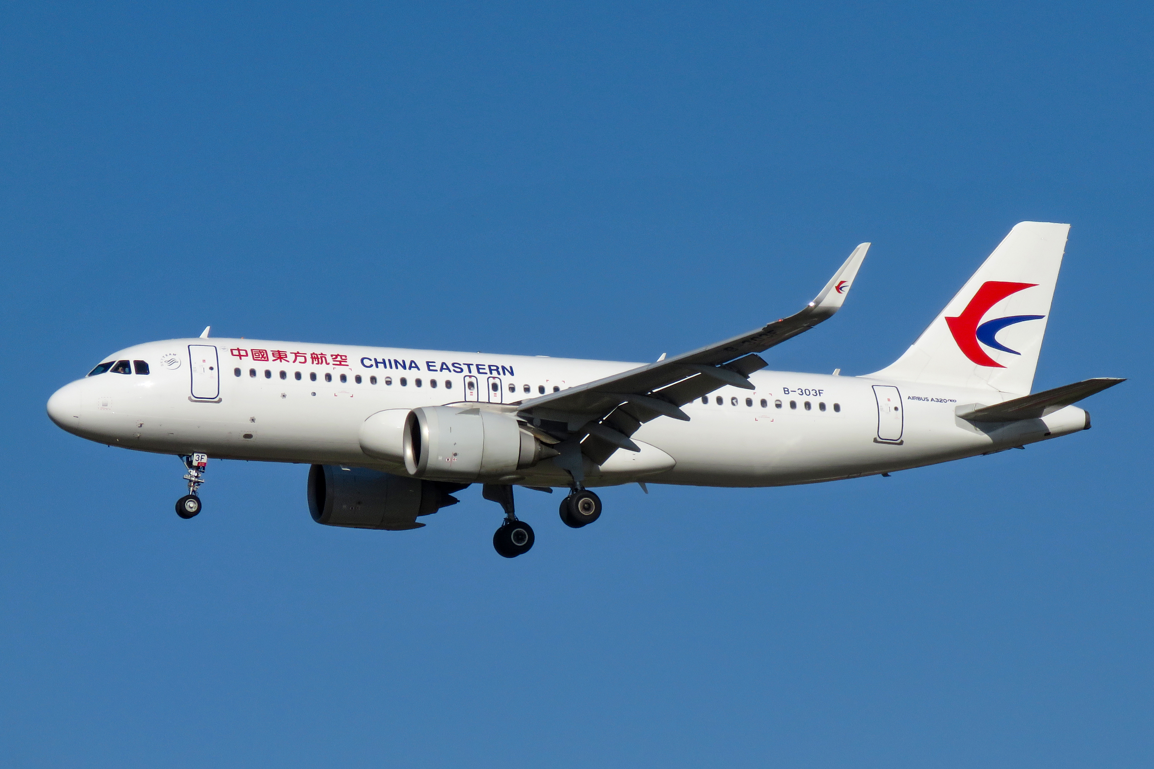 China Eastern 5155 from Shanghai-Hongqiao. Two A320neo's behind 2445...